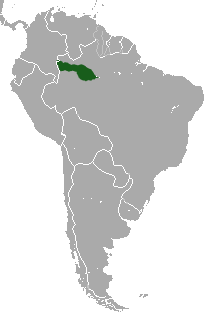 Collared Titi (Callicebus torquatus) range